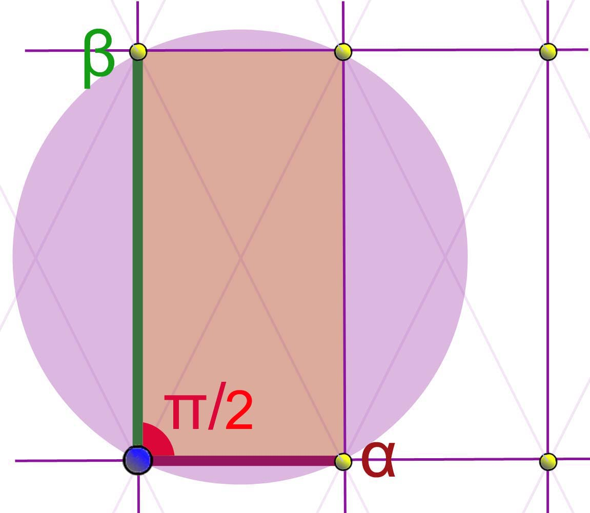 Exemple of a lattice, dimension 2 and orthorombic symetry (second case)